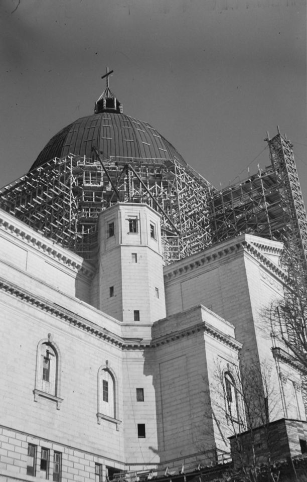 We see the skeleton of the dome of the Saint Joseph's Oratory located at 3800 Queen Mary Road in Montreal.